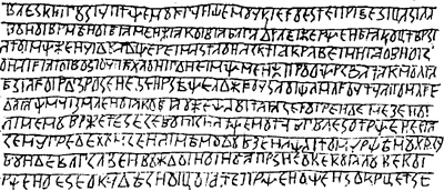 Contour copy of the only known photograph of a plank from the Book of Veles.